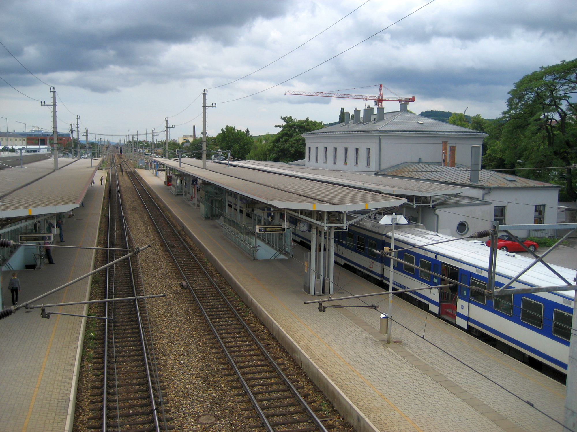 train station Mödling in Lower Austria